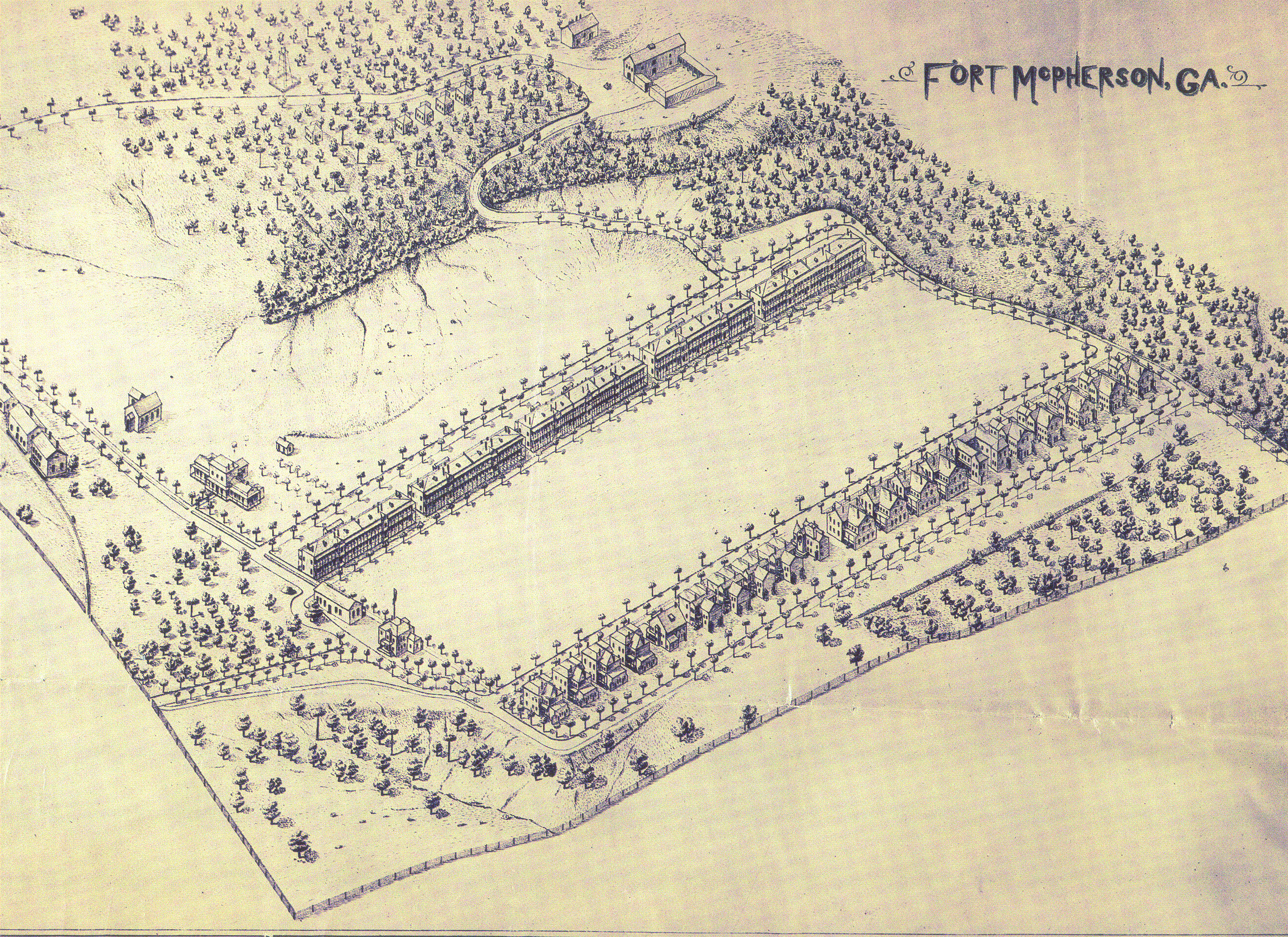 Capt. Joshua West Jacobs designed the layout of Fort McPherson in 1885, a sketch of which is shown here. Though much has changed, Hedekin Field is still as visible today as it was in this sketch.